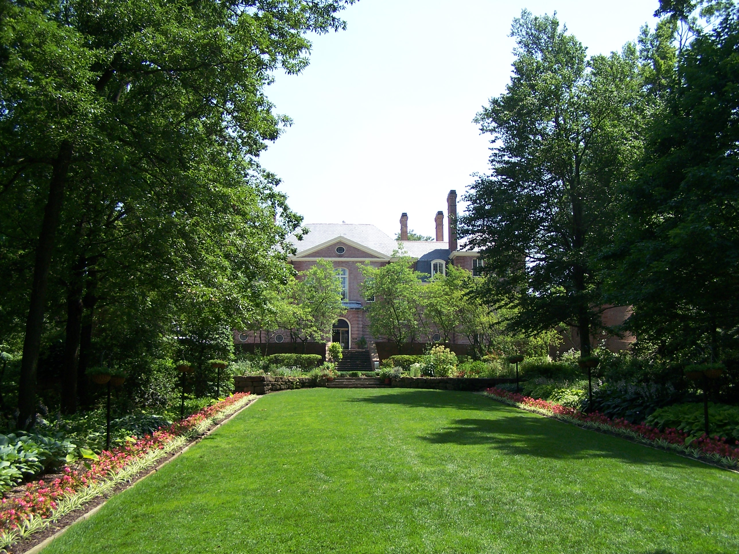 This photo was taken by me and released to public domain.